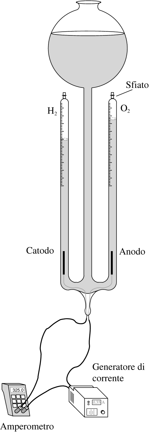 An electrolysis ampoule